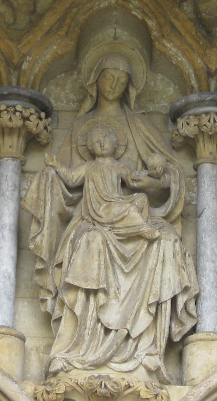 Statue of the Virgin Mary and Christ Child in the porch of the West Front of Salisbury cathedral, UK